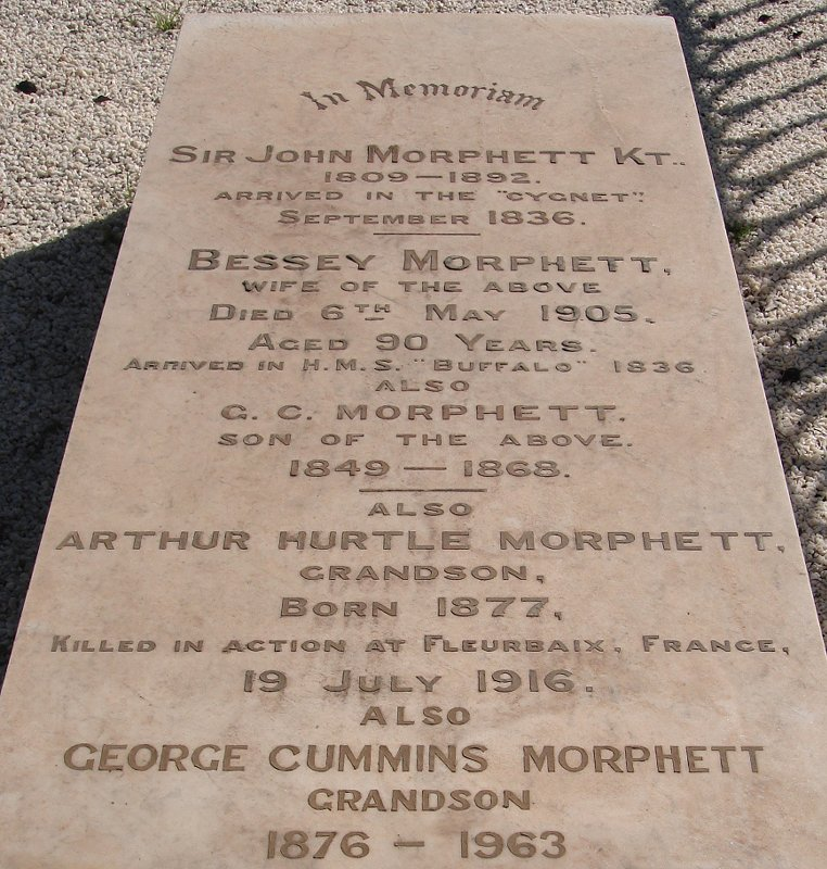 Gravestone of Sir John Morphett (and family) in West Terrace Cemetery, Adelaide city centre